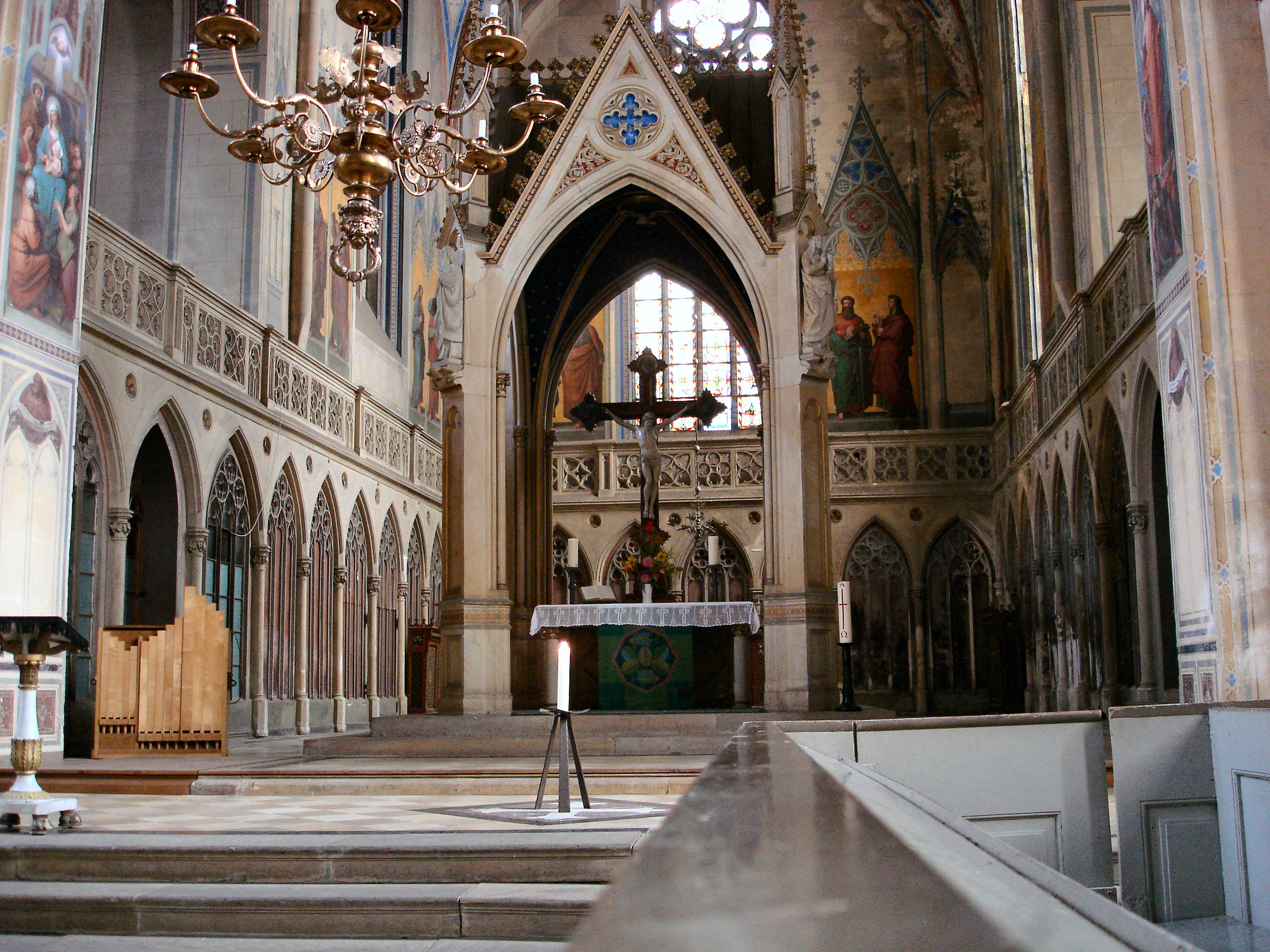 Chorraum Marienkirche Barth/ Choir of the Marienkirche in Barth